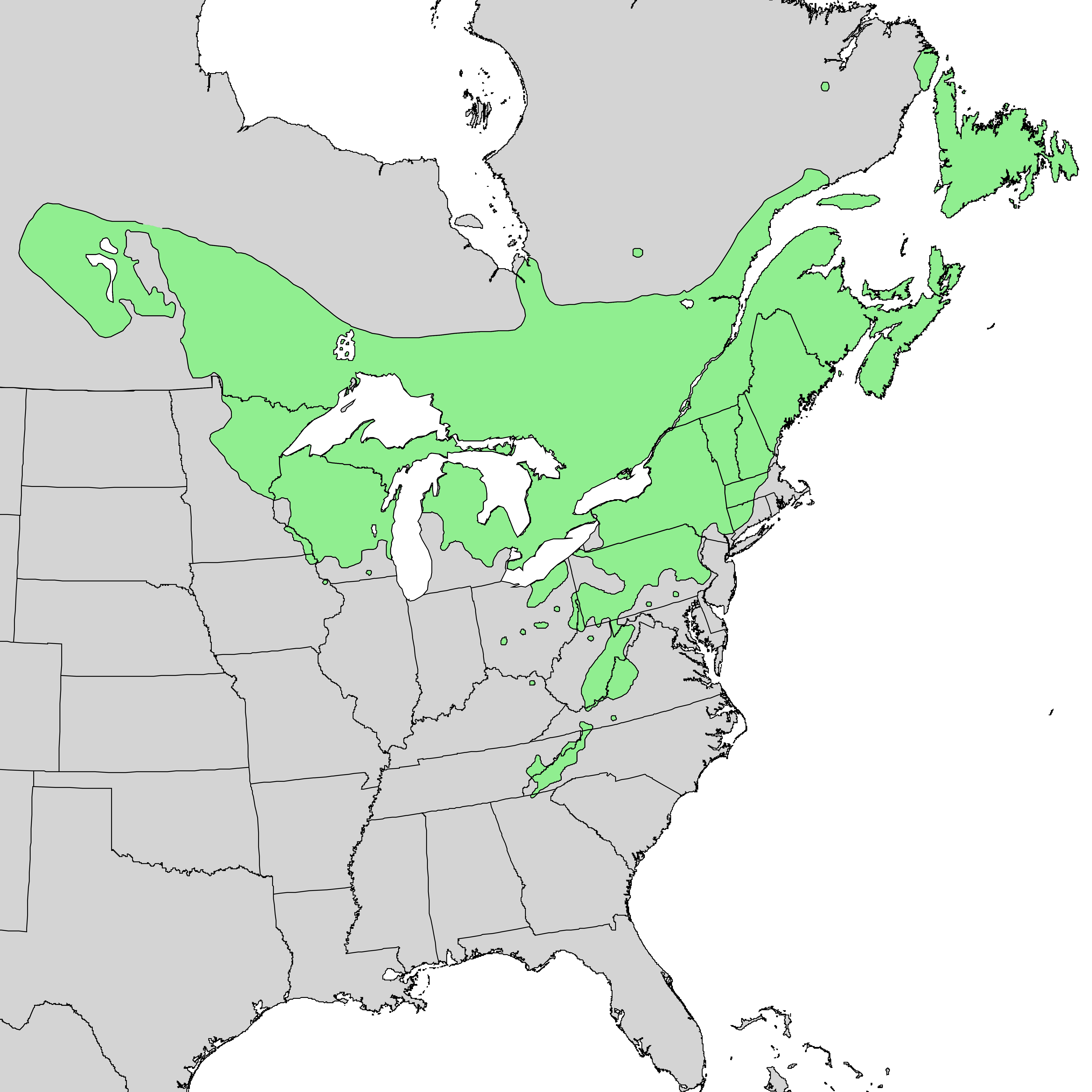 Natural distribution map for Acer spicatum.